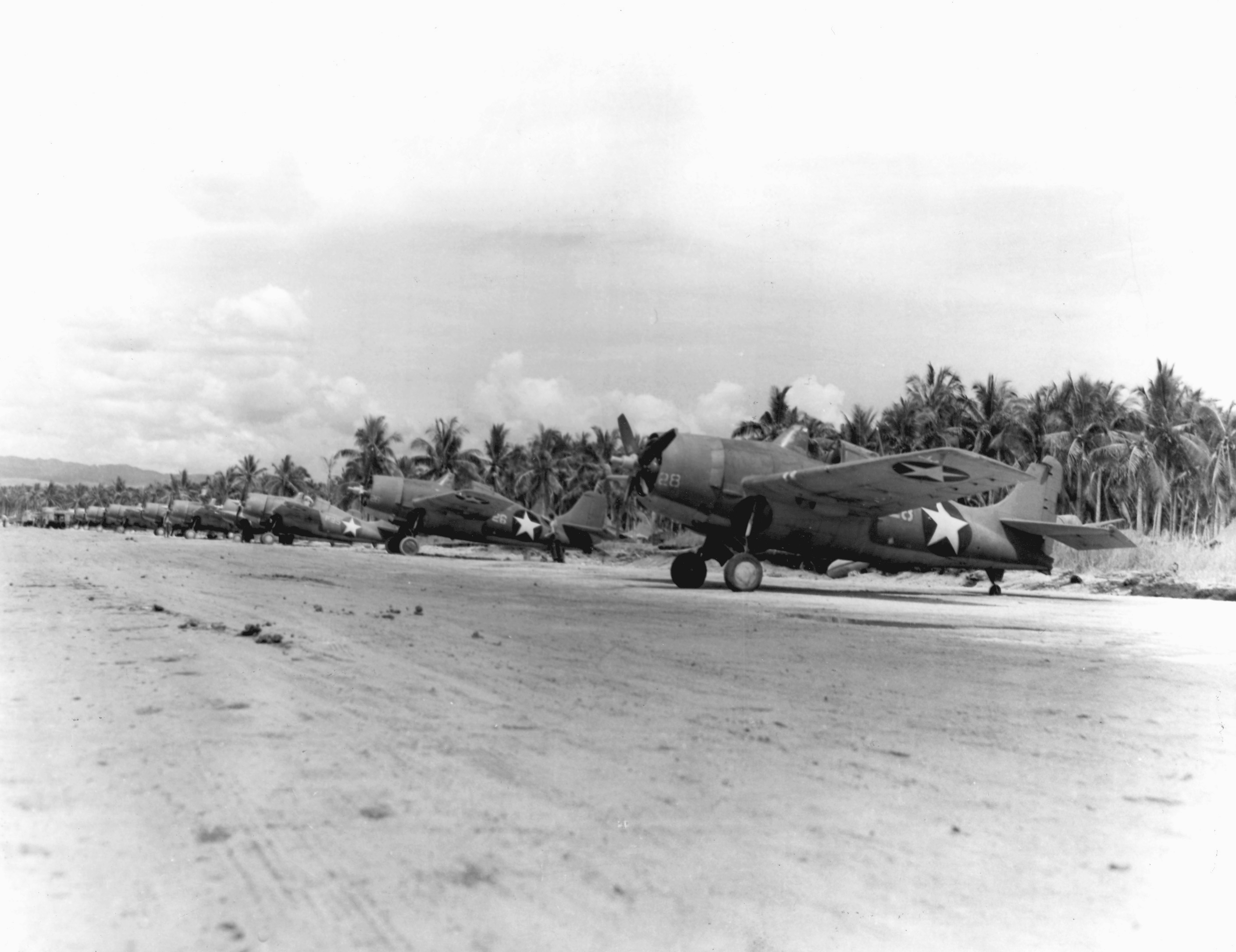 U.S. Marine Corps Grumman F4F-4 Wildcat fighters at Henderson Field, Guadalcanal, in January 1943.